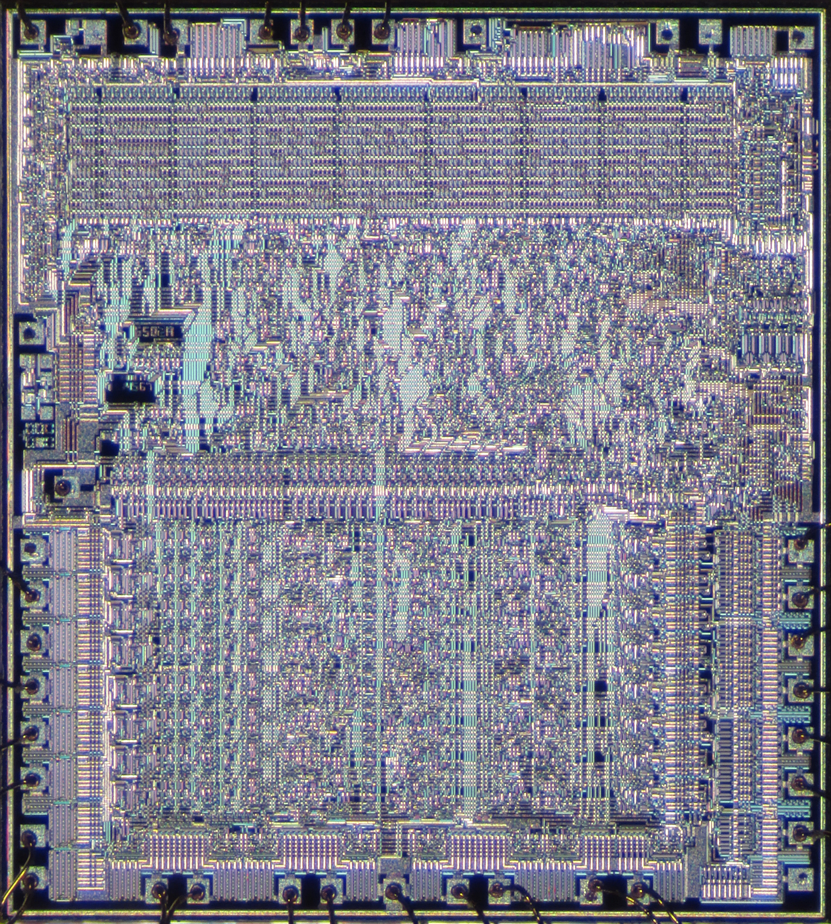 Die shot of MOS Technology 6502 microprocessor revision A.